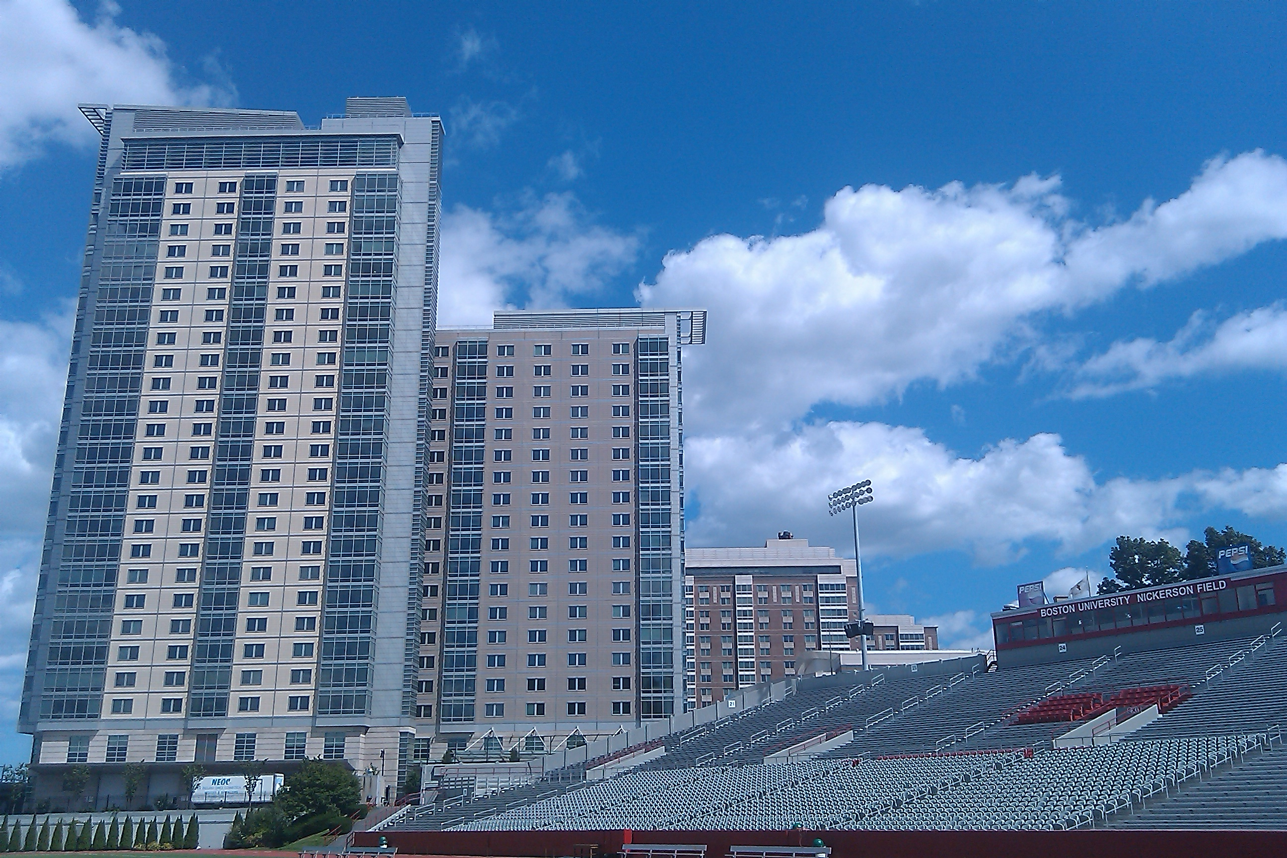 Student Village II at Boston University, taken from Nickerson Field in West Campus. Student Village I is visible in the background.